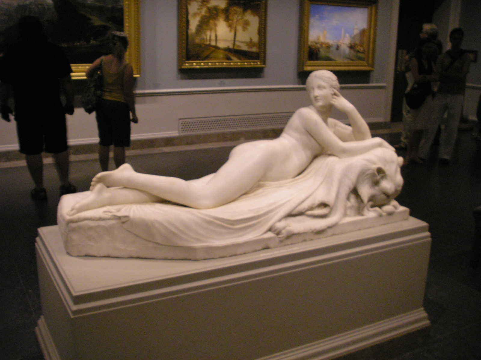 "Naiad" by Antonio Canova. Marble, model 1815/1817, carved 1820/1823. Gift of Lilian Rojtman Berkman 2003.62.2